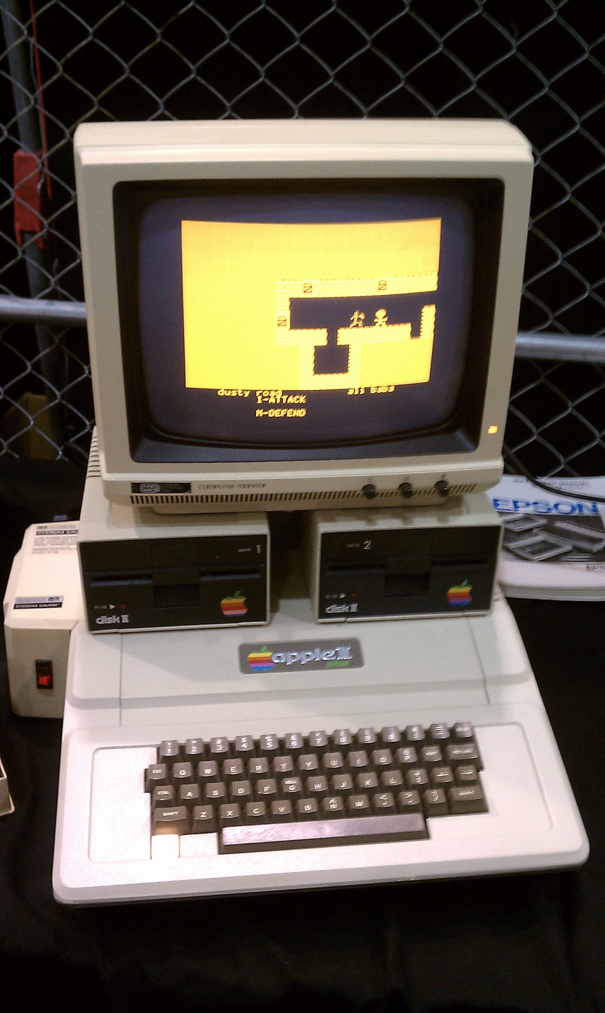 A fully-functioning Apple II, courtesy the Computer History Museum, playing the game "Ali Baba and the Forty Theives" at Maker Faire 2011.